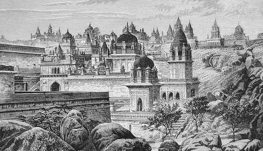 India and Its Native Princes: Travels in Central India and in the Presidencies of Bombay and Bengal By Louis Rousselet, Charles Randolph Buckle London : Chapman and Hall, 1875